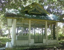 Panglima Polem Tomb